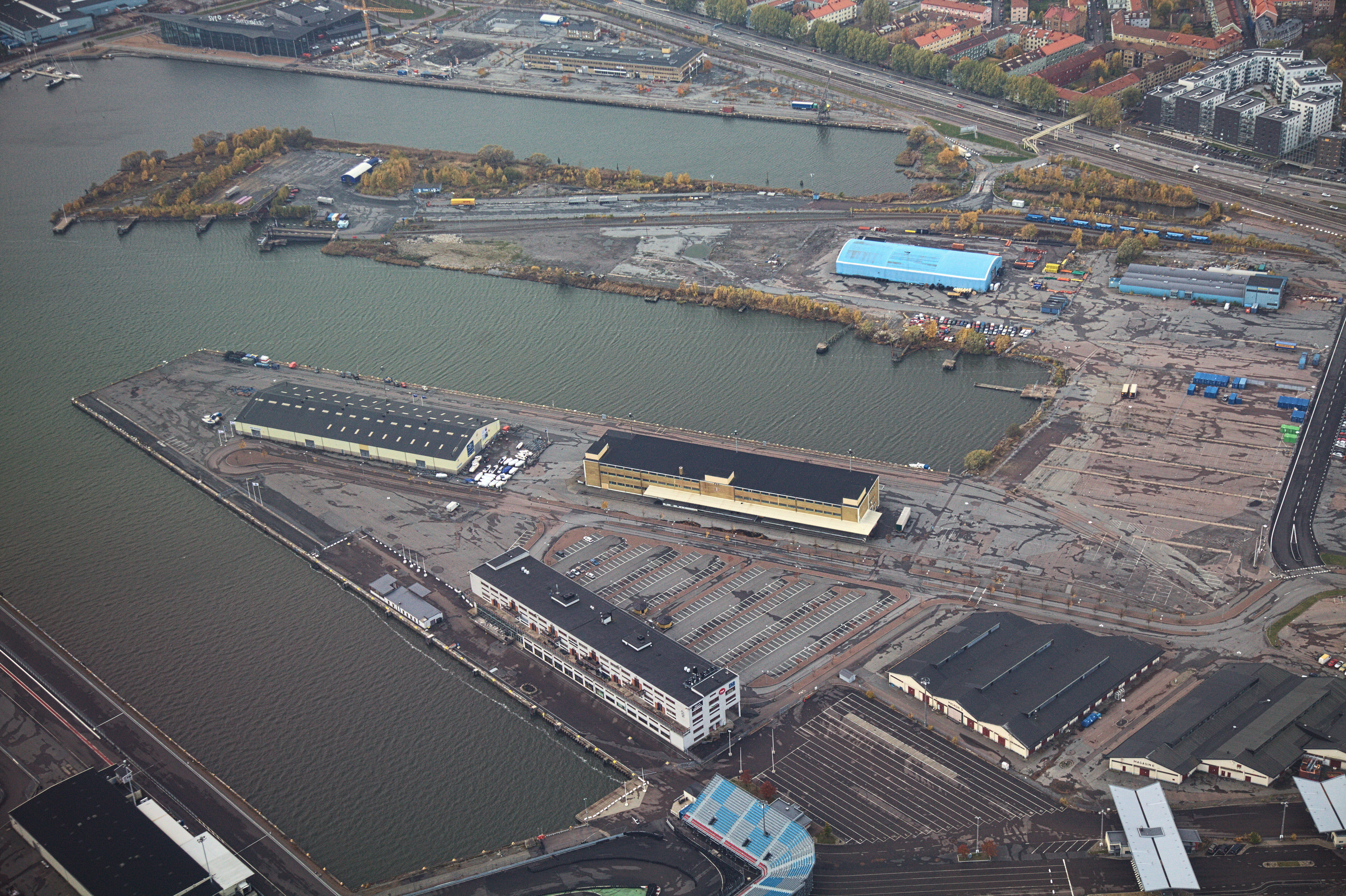 Photo taken on a helicopter over Gothenburg